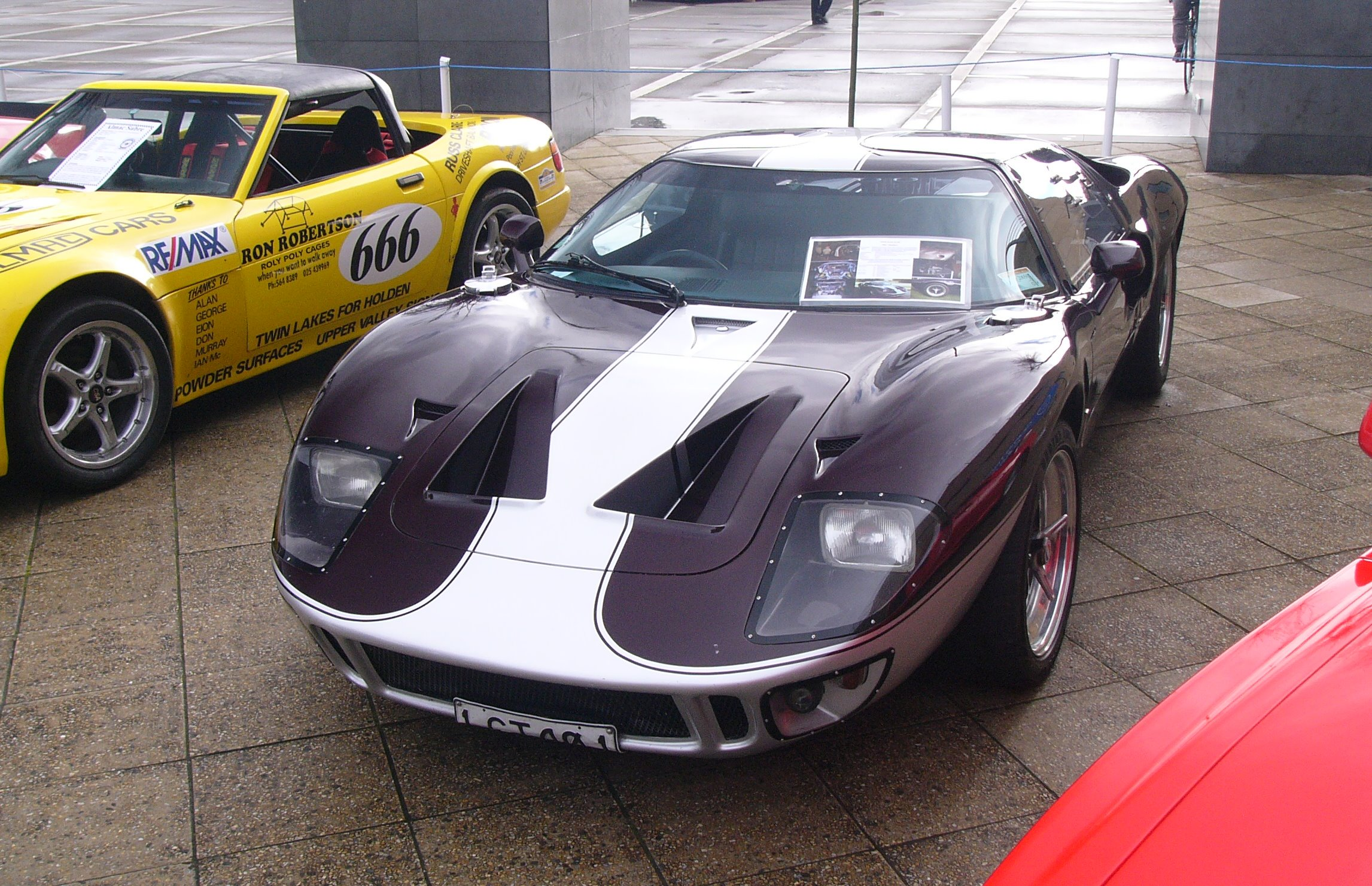 Photos taken at TePapa, Museum of New Zealand, Wellington